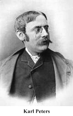 From Casper Erichsen, "The angel of death has descended violently among them," African Studies Center, University of Leiden, Netherlands, 2003. Photographs are all circa 1907 or earlier, and thus in the public domain according to the author.